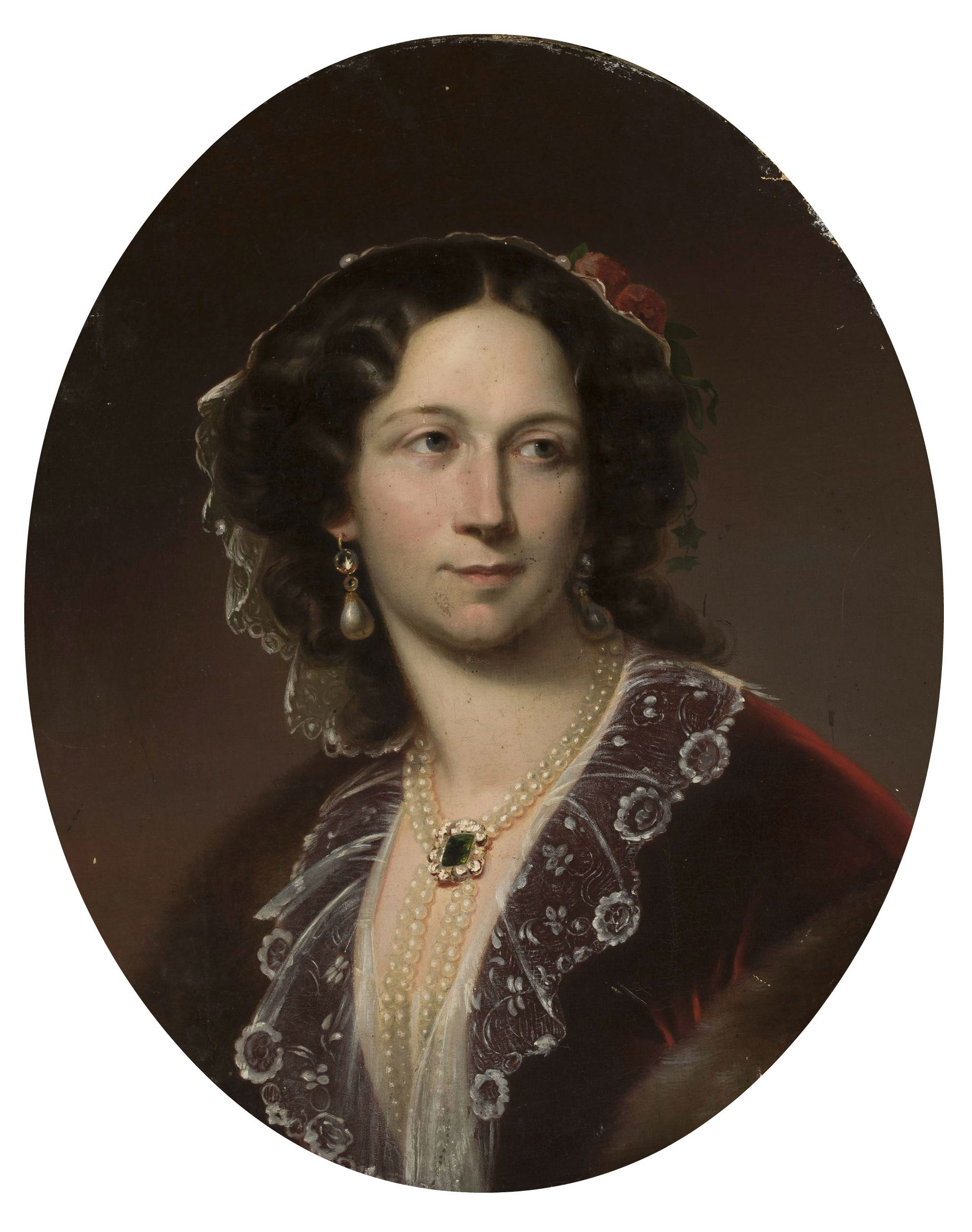 Aleksandra Potocka